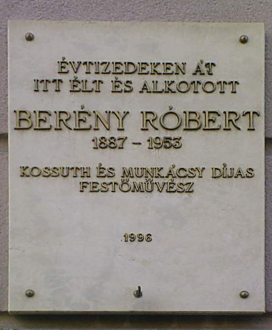 Commemorative plaque of Róbert Berény, Budapest District XII, Városmajor Street No 36